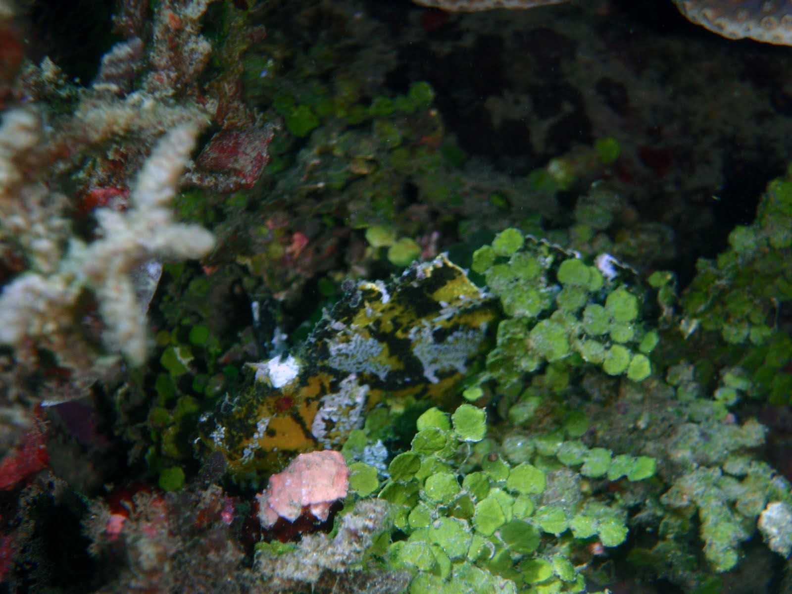 A Leaf (or Scorpion) fish very well hidden in the algae and sea weeds